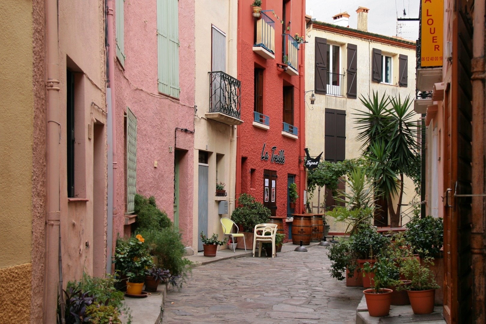 Collioure